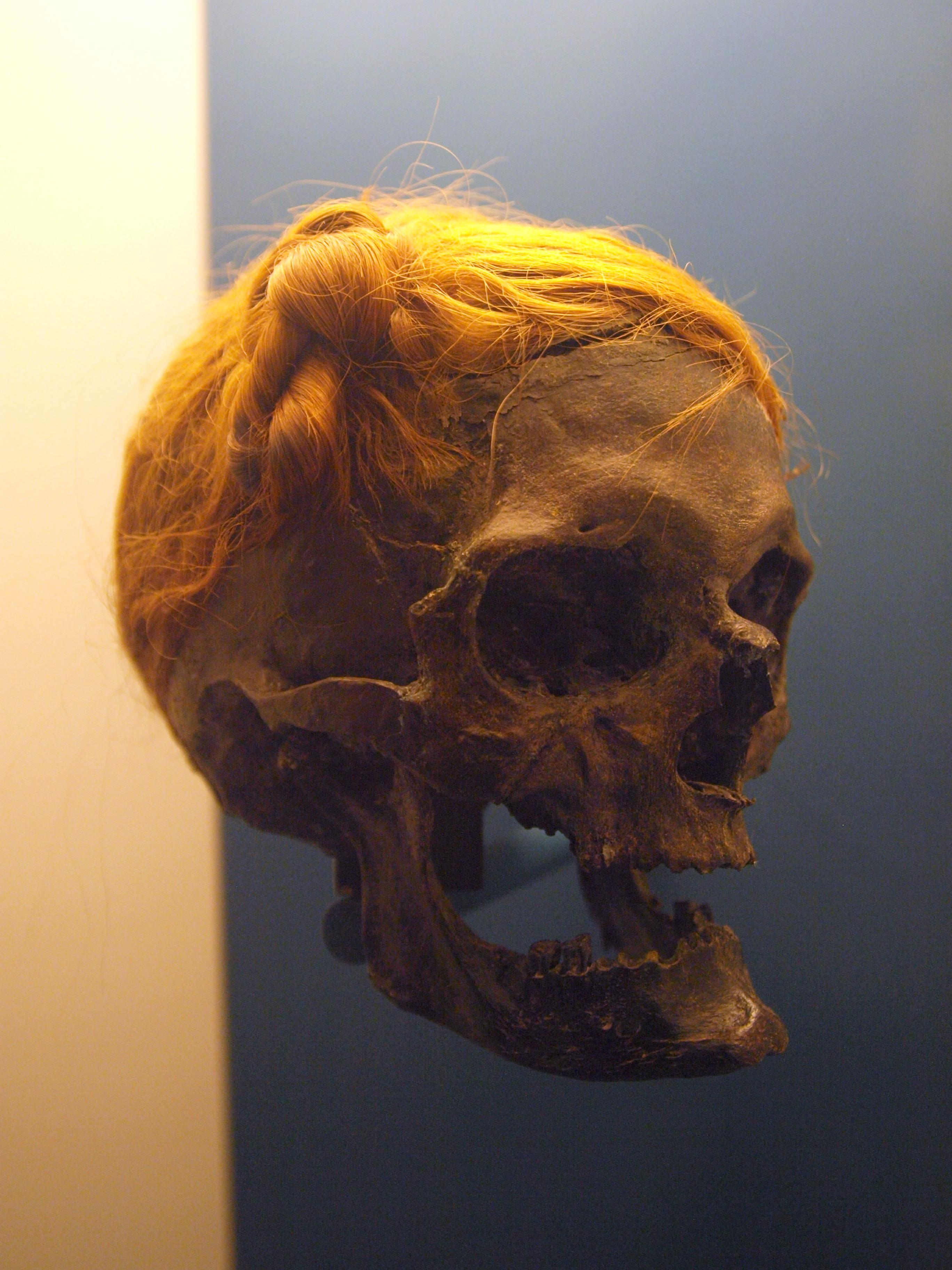 The bog body of the Osterby Man with Suebian knot on display at Archäologisches Landesmuseum Gottorf Castle, Schleswig Germany. Found in 1948 in the Köhlmoor near Osterby. C14 dated beween 75 and 130 AD.